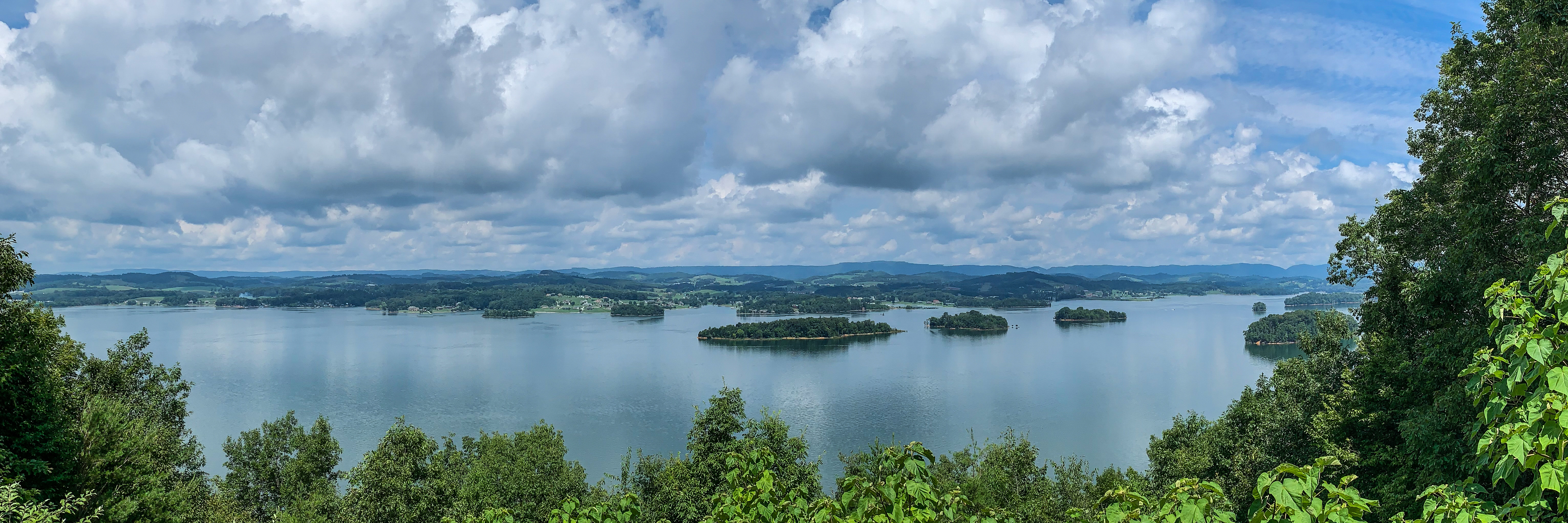 Panoramic view of Cherokee Lake, Clinch Mountain, and Grainger County from Panther Creek State Park in Morristown, Tennessee, United States